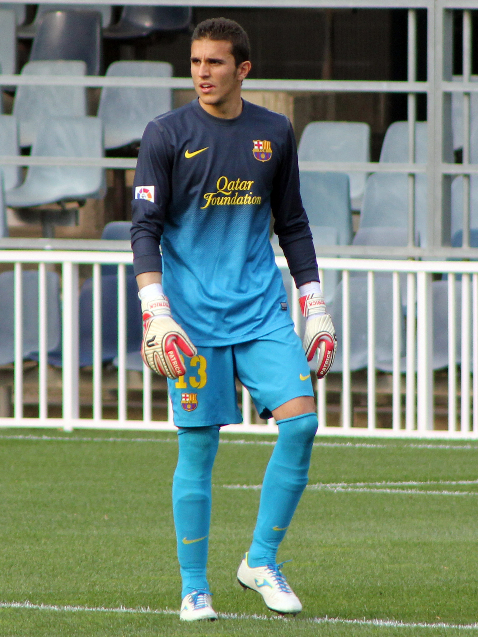 Jordi Masip, player of FC Barcelona B